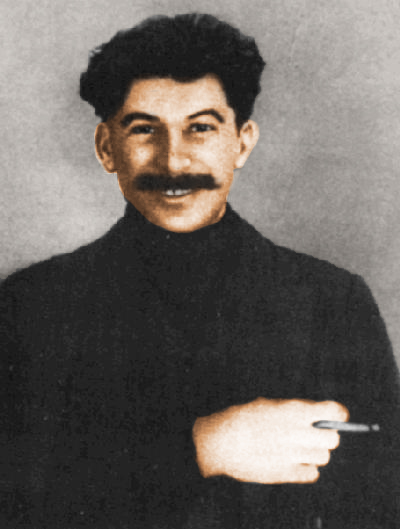 Stalin in Exile 1915 Image from english wikipedia See: Image:Stalin_exile_1915.gif